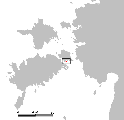 Suurlaid is a little island in Estonia.